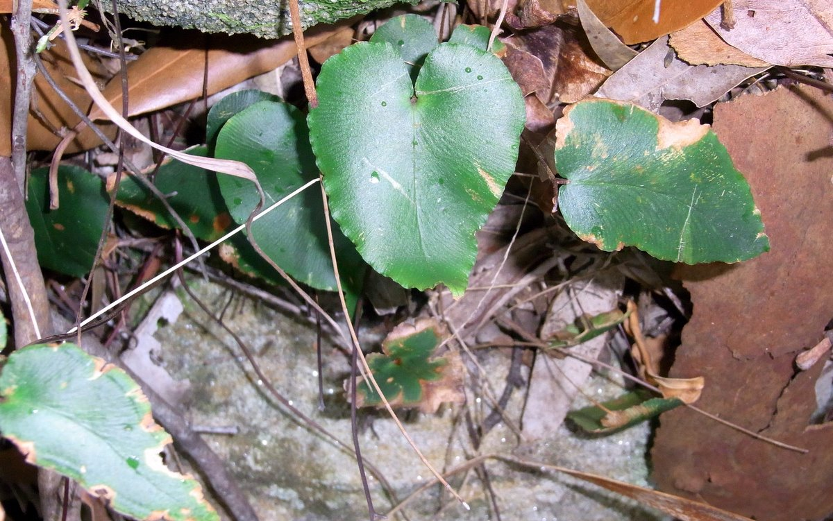 Fern broad frond West Head Ku-ring-gai Chase National Park, Australia. Australia. Sori 2 - 3 mm wide. Likely to be Pellaea spp. possibly paradoxa